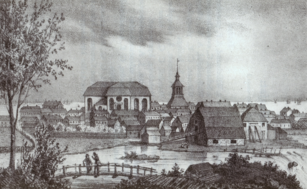 The church of Oulu before the fire of 1822. It was designed by Swedish church builder Daniel Hagman. The fire destroyed the wooden structures of the church. The church was rebuilt with plans from Carl Ludvig Engel.